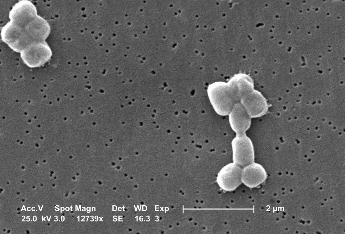 ID#: 9330 Description: This SEM depicts a couple of clusters of aerobic Gram-negative, non-motile Acinetobacter baumannii bacteria as seen under a magnification of 12,739x. Members of the genus Acinetobacter are nonmotile rods, 1-1.5µm in diameter, and 1.5-2.5µm in length, becoming spherical in shape while in their stationary phase of growth. This bacteria is oxidase-negative, and therefore, does not utilize oxygen for energy production. They also occur in pairs under magnification. Acinetobacter spp. are widely distributed in nature, and are normal flora on the skin. Some members of the genus are important because they are an emerging cause of hospital acquired pulmonary, i.e., pneumoniae, hemopathic, and wound infections. Because the organism has developed substantial antimicrobial resistance, treatment of infections attributed to A. baumannii has become increasingly difficult, whereupon, the only drug that works on multi-resistant strains is colistin, which is a very toxic antibiotic. Content Providers(s): CDC/ Janice Carr Copyright Restrictions: None - This image is in the public domain and thus free of any copyright restrictions. As a matter of courtesy we request that the content provider be credited and notified in any public or private usage of this image.